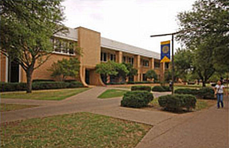 Vincent Science Building, Angelo State University, Texas